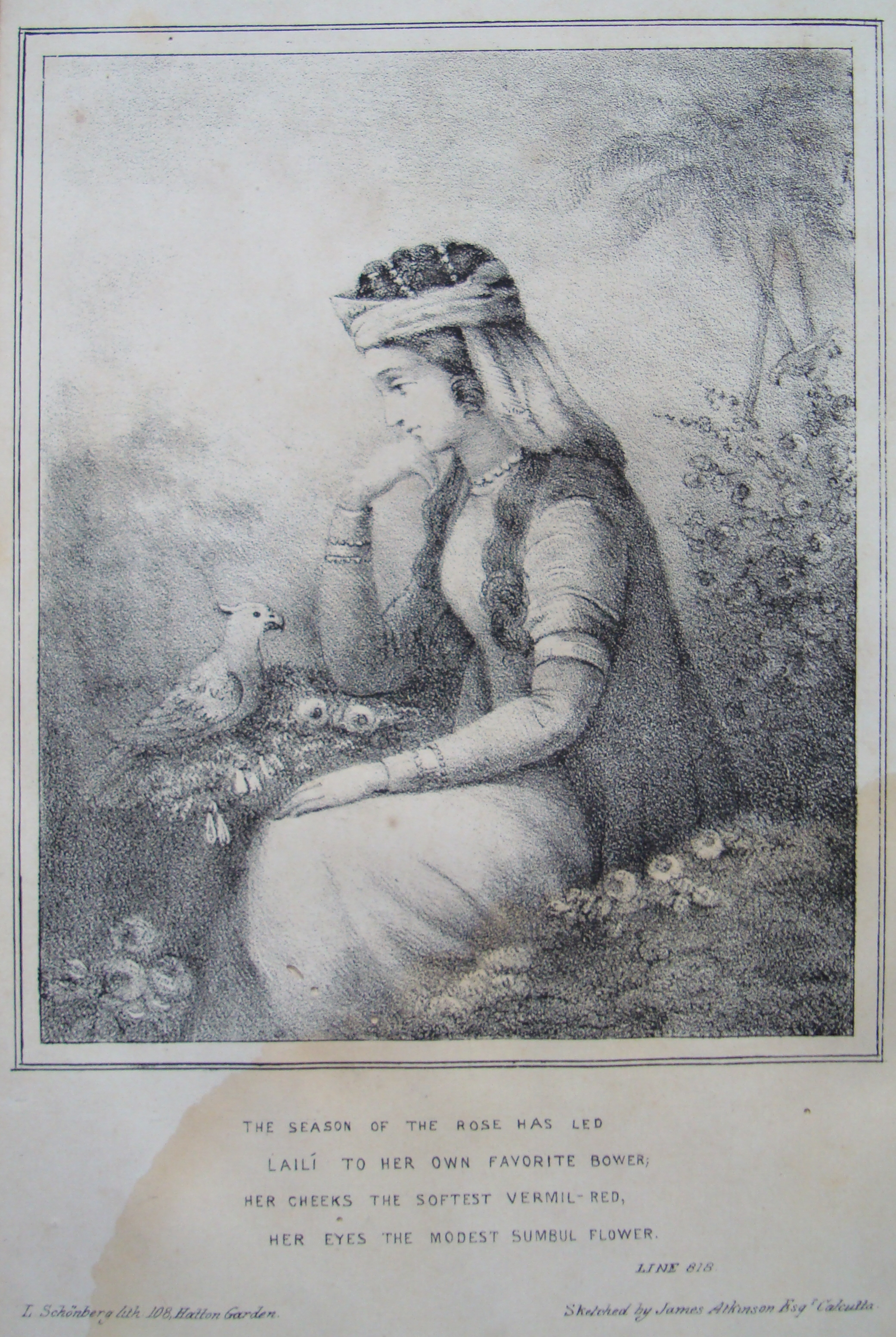 Frontispiece to Laili and Majnun, a poem, from the original Persian of Nazami published under the superintendence of the Oriental Translation Fund of Great Britain and Ireland. Published by A J Valpy, MA publisher to the Oriental Translation Fund, Red Lion Court, Fleet Street, London 1836. Shows an illustration of Laili and an extract from the poem.